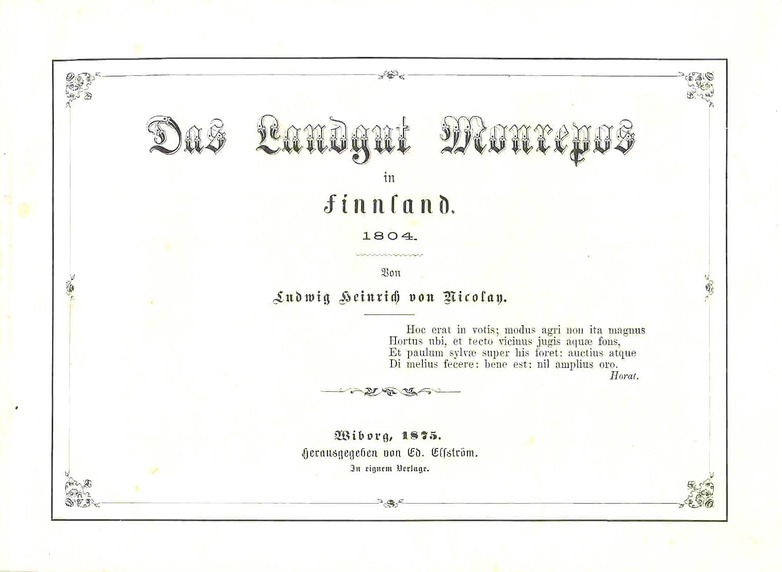 title page of the book Das Landgut Monrepos in Finnland